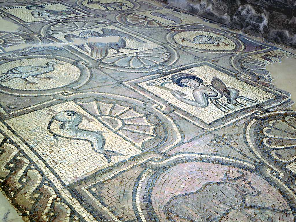 Well-preserved floor mosaics line both side aisles of the late 5th century Byzantine church at Petra, Jordan.